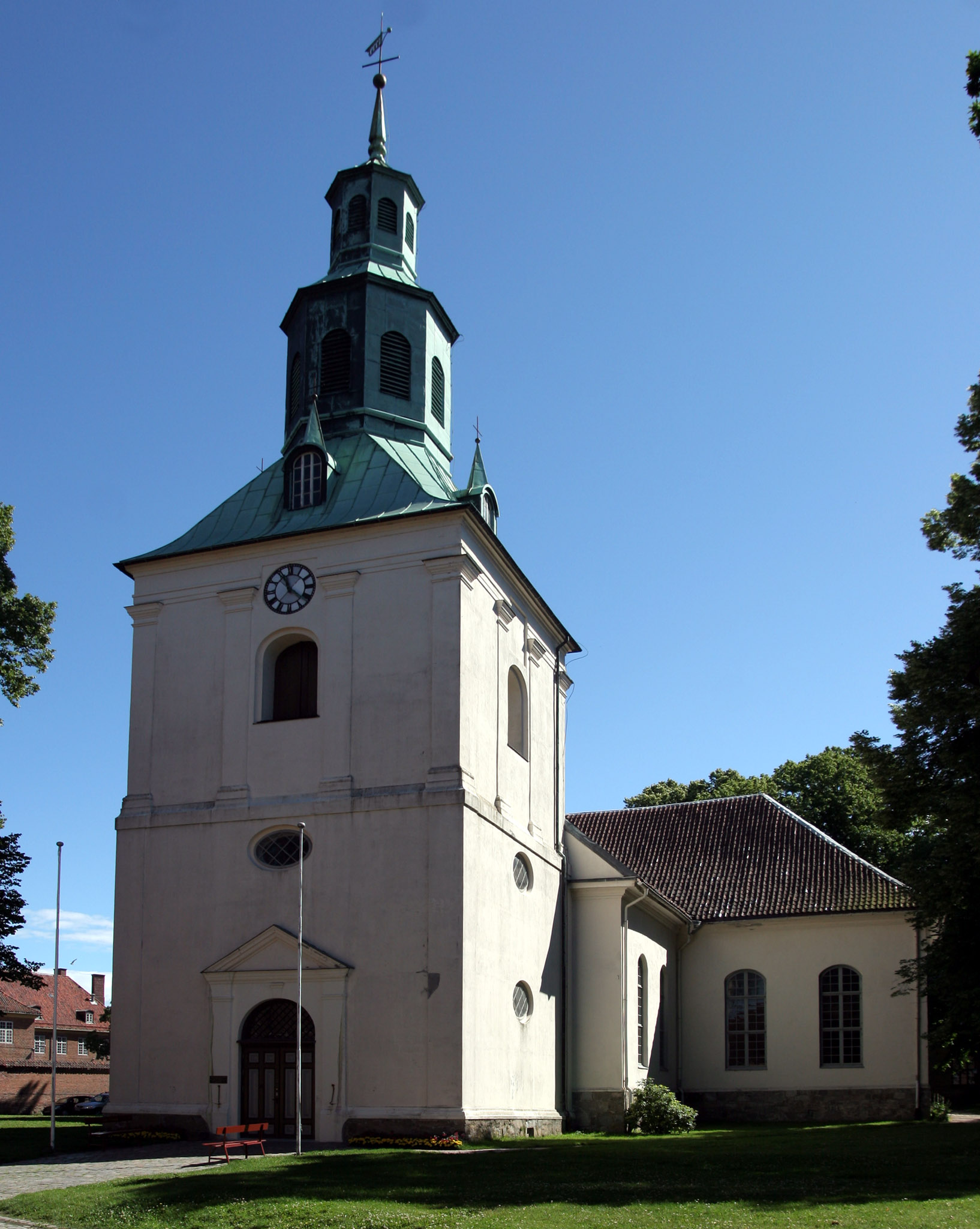 The Østre Fredrikstad church in Fredrikstad (Norway)